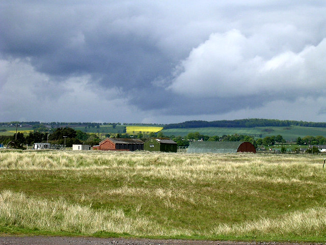 Barry Buddon camp. This group of buildings is part of the camp but outwith the main perimeter fence. They form the group of three buildings in the centre right of the grid square on the 1:25000 map